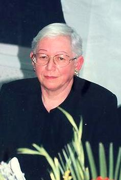 Aviva Taler, an Israeli sociologist - researcher and lecturer in the field of social work and psychology.